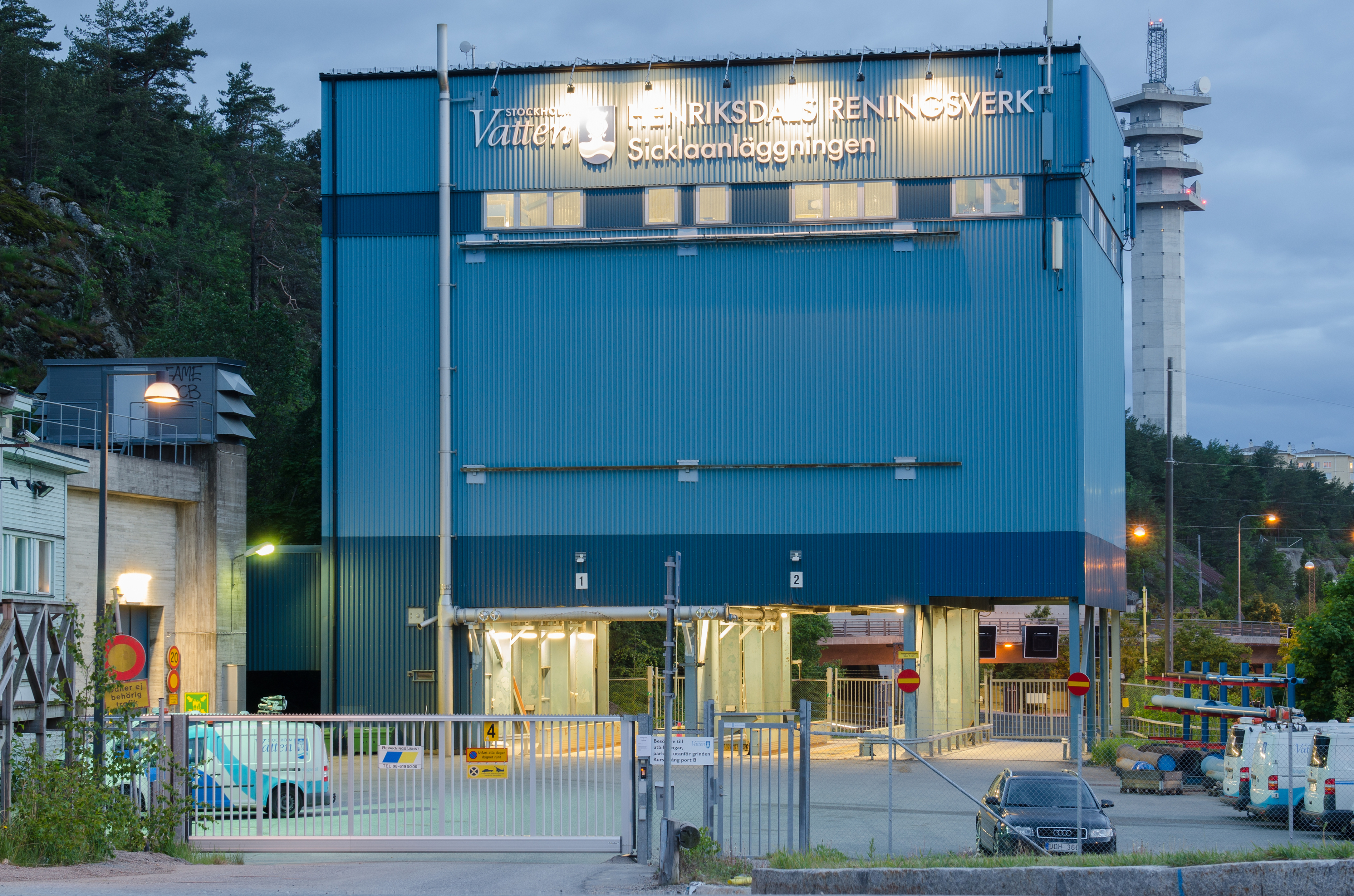 Henriksdals reningsverk (Wastewater treatment plant).